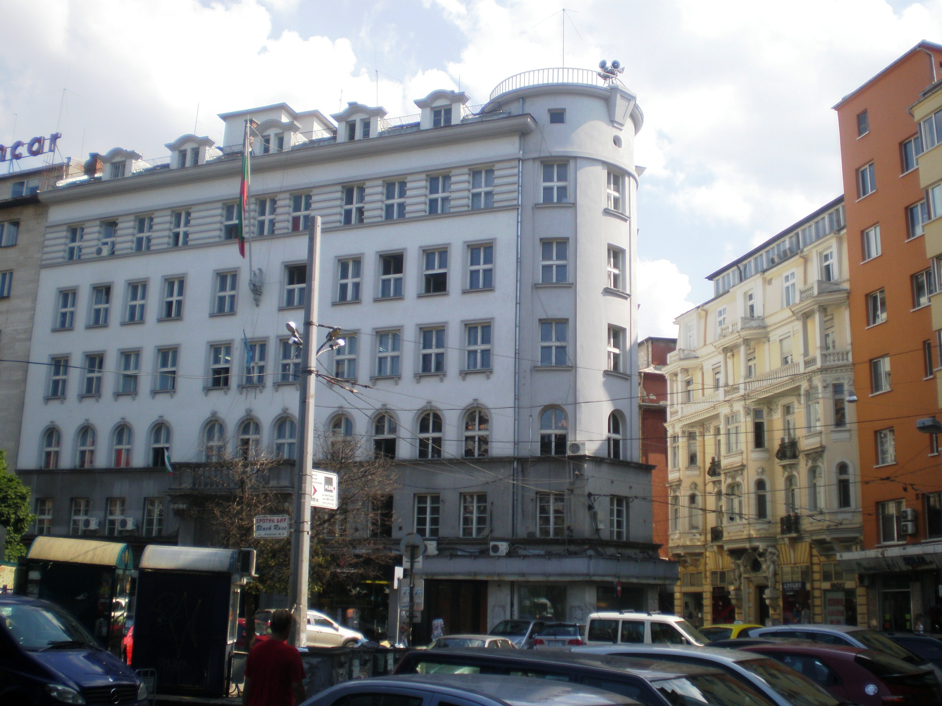 Triaditsa municipality building, Sofia